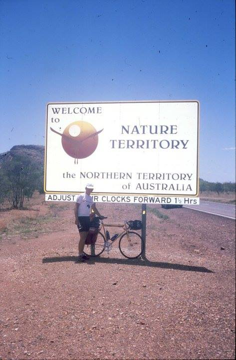 Lars Nielsen, Around Australia